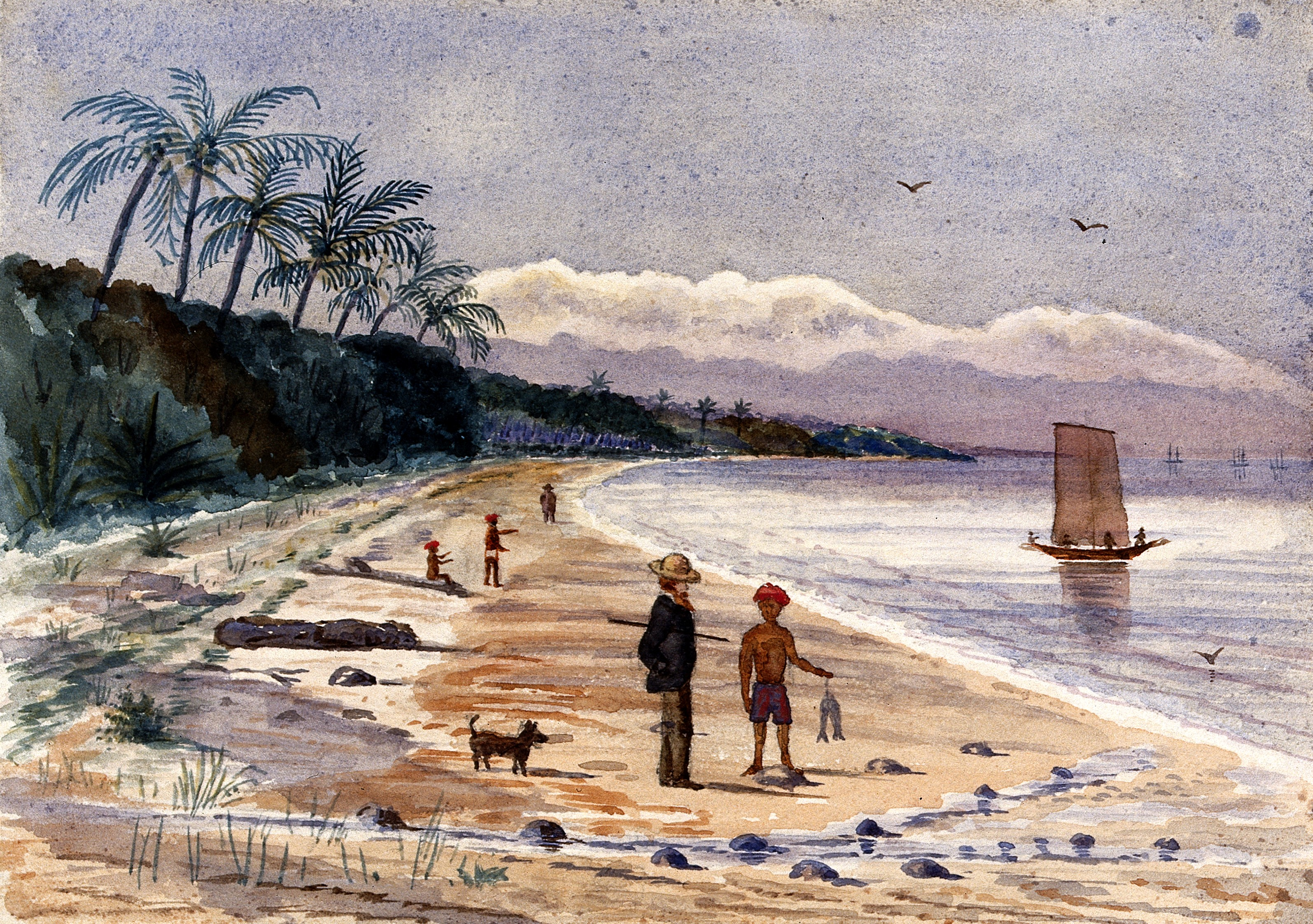 A watercolour painting of the view along the beach by Siglap, Singapore.